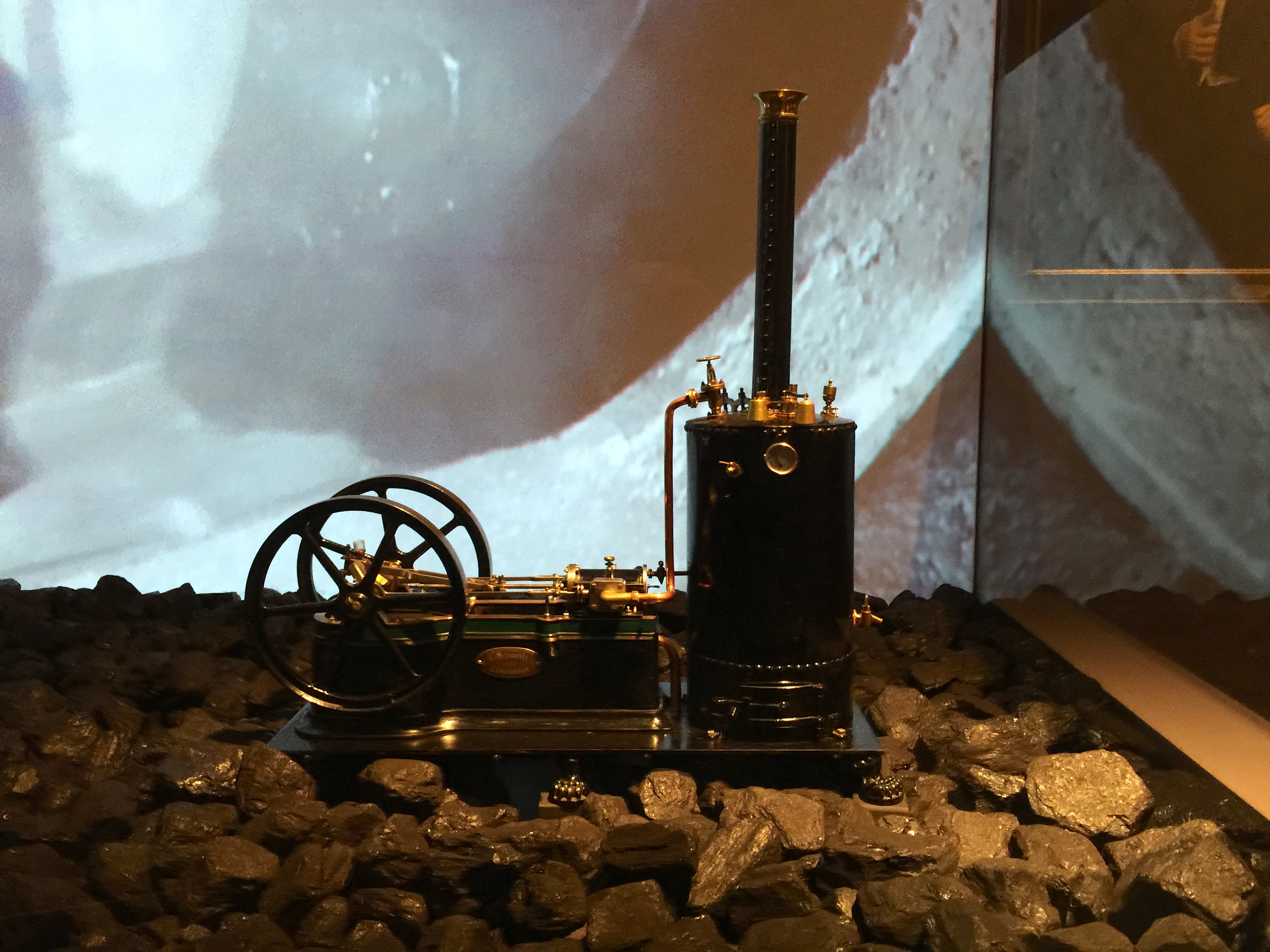 Scottish engineer James Watt Steam invented in 1764 the steam machine. It is the steam power that launches the industrial revolution.